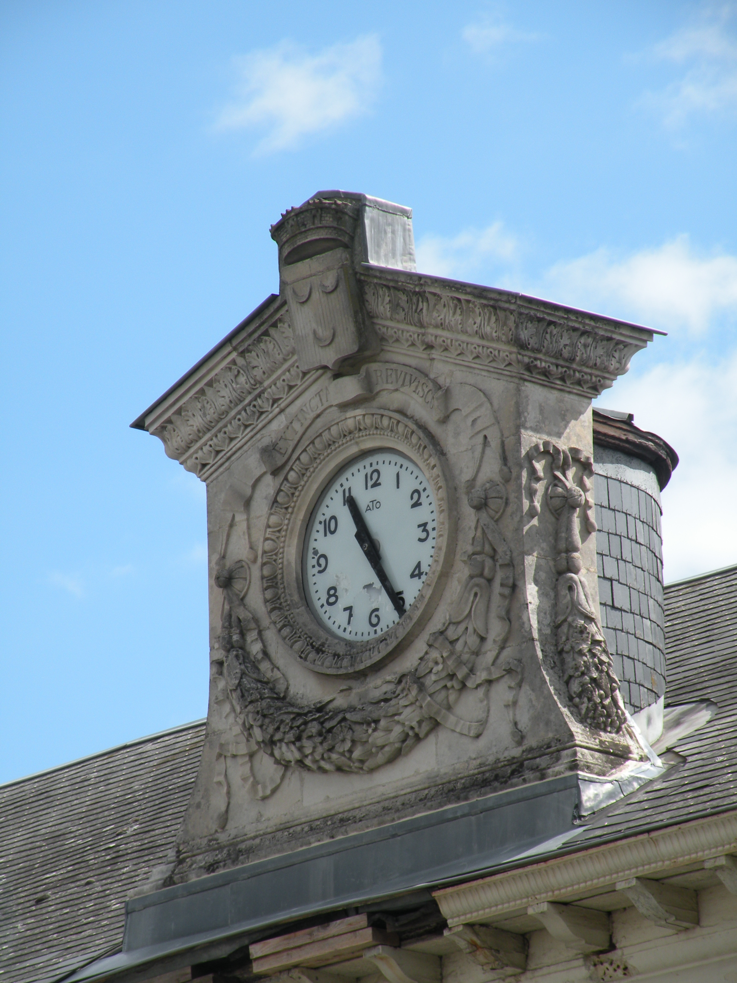 Clock of the train station of Châteaudun.